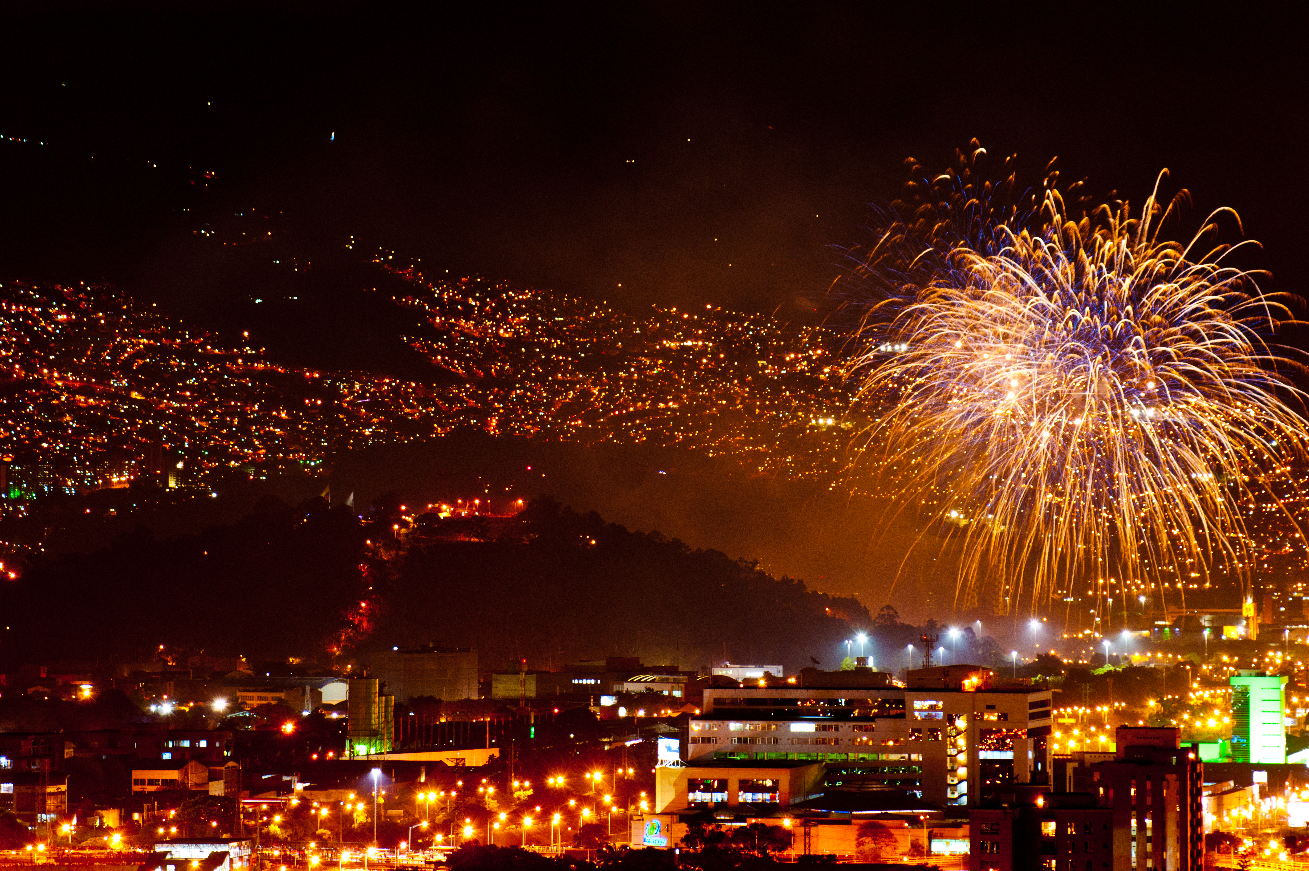 Fireworks in Medellín, as part of Colombia Bicentennial, at night of July 20th, 2010.